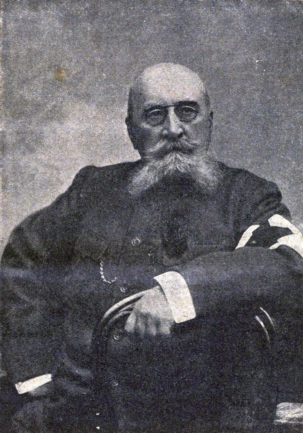 Vasily Nemirovich Danchenko